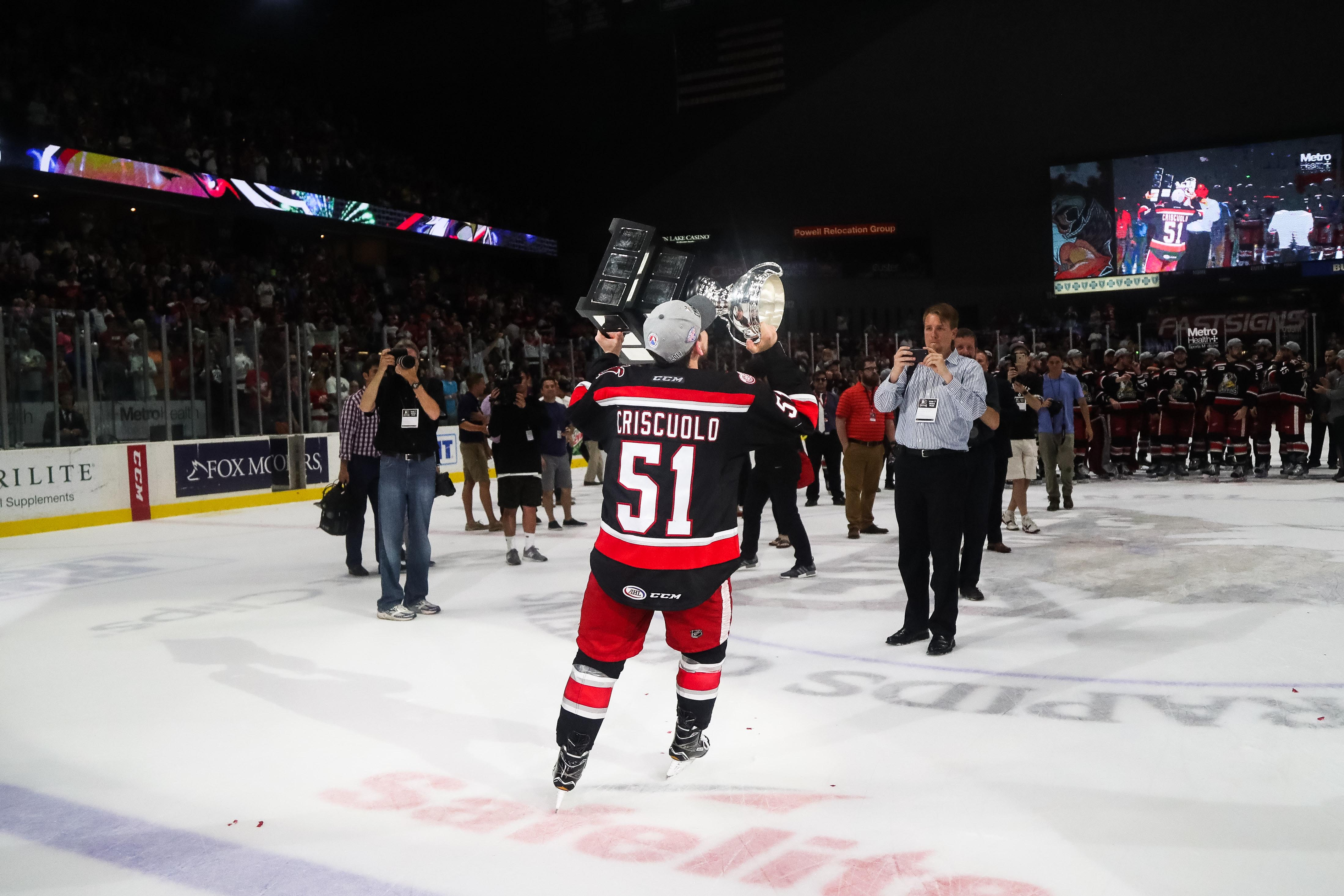 Photo: Sam Iannamico